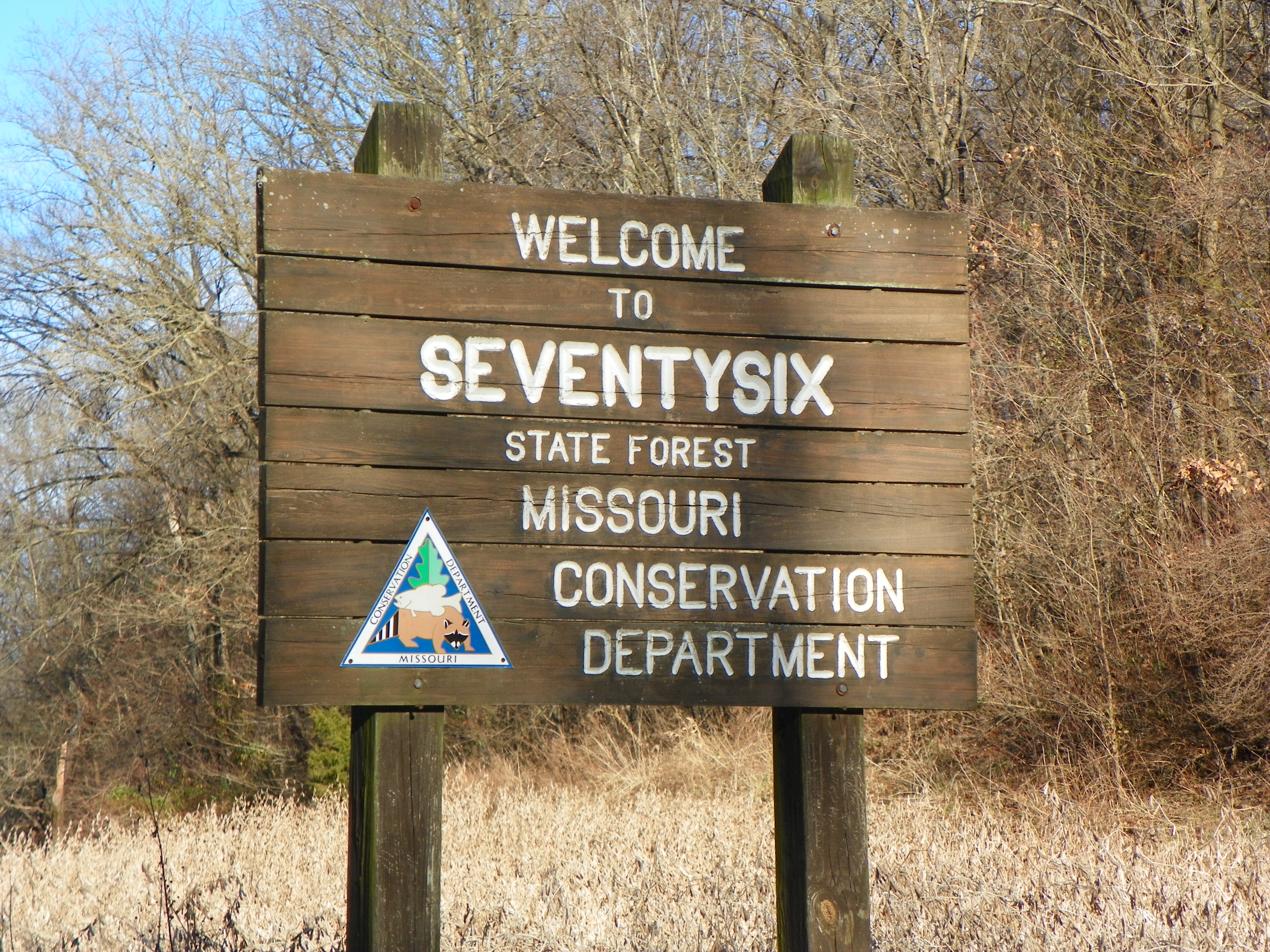 Seventy-Six Converservation Area sign